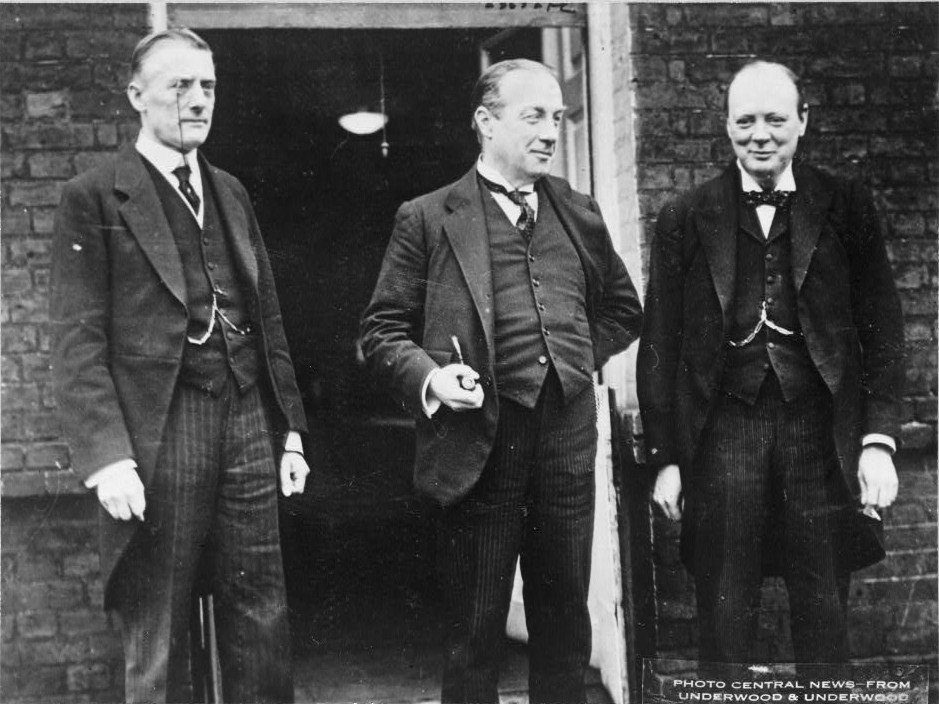 Churchill Chamberlain Baldwin